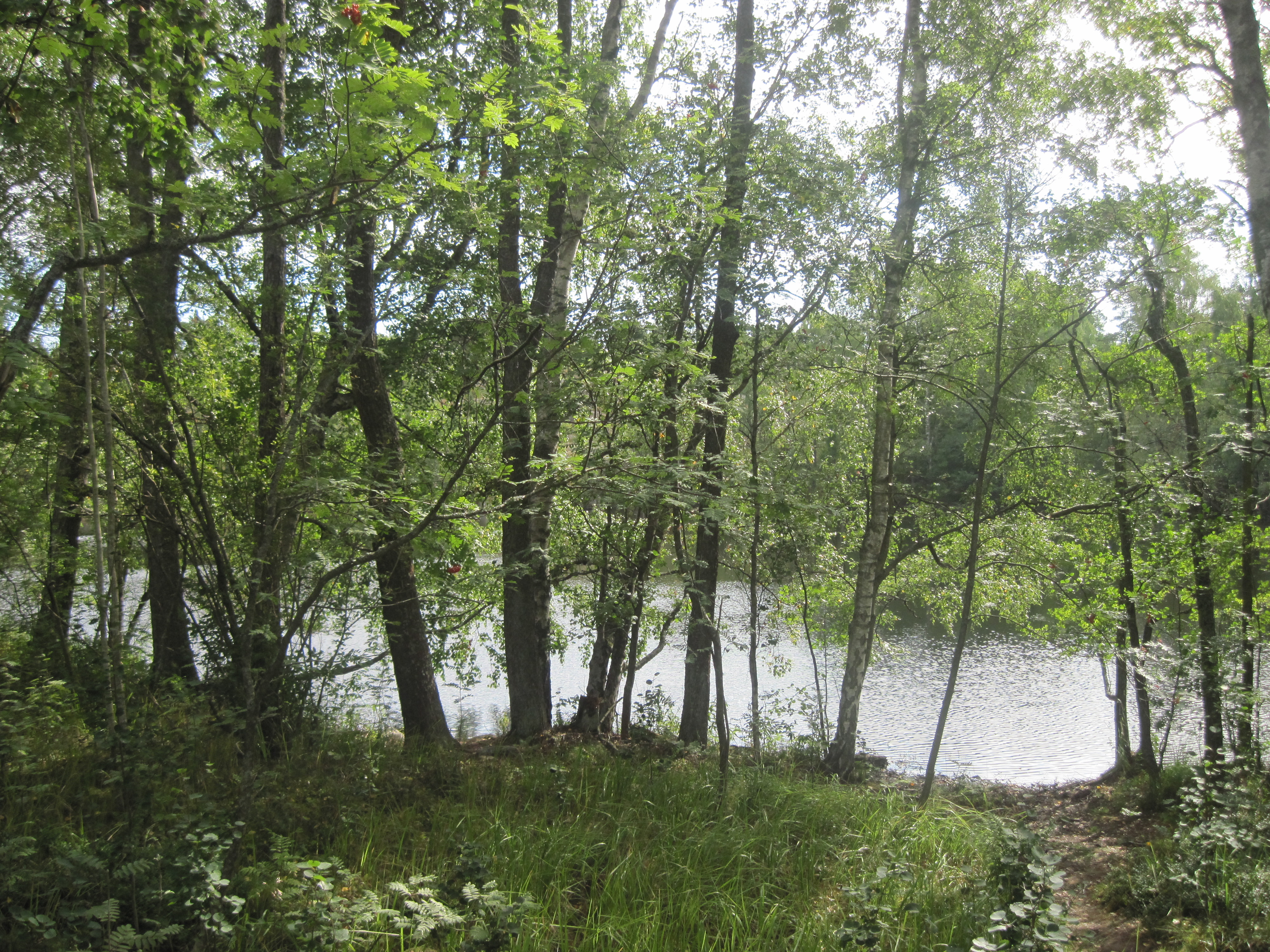 Pond at Vallisaari, Helsinki